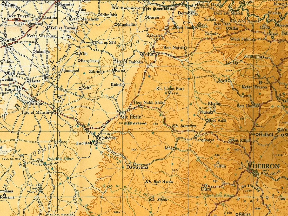 Beit Jibrin 1945 1:250,000